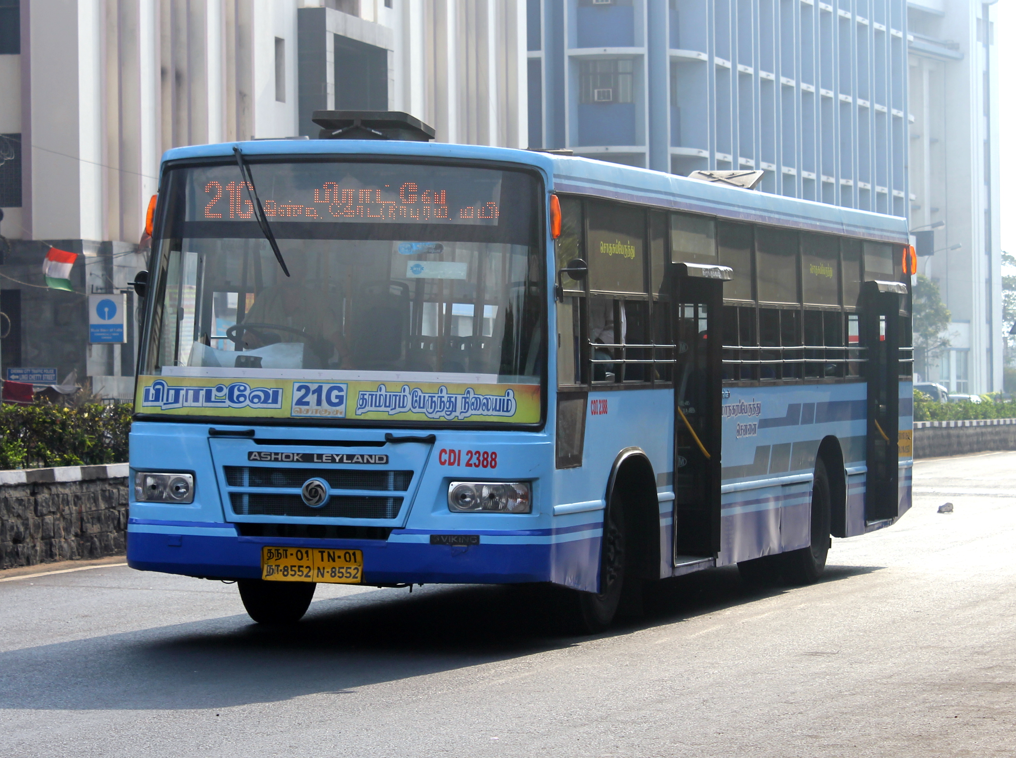 A Metropolitan Transport Corporation Semi-Low Floor bus operating route 21G.